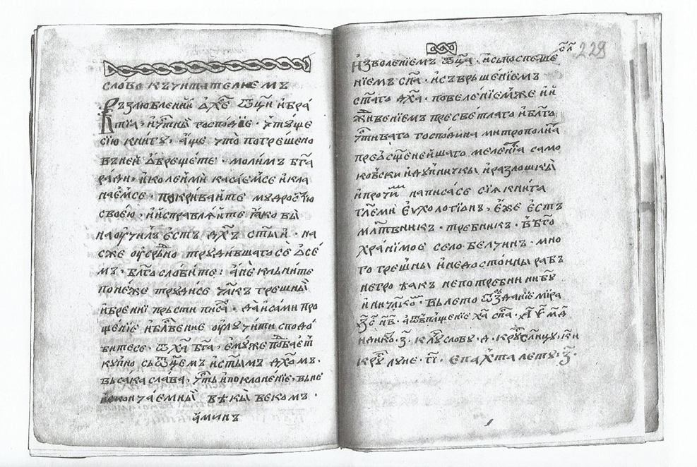 Euchologion from 17 Century, Samokov Metropoly